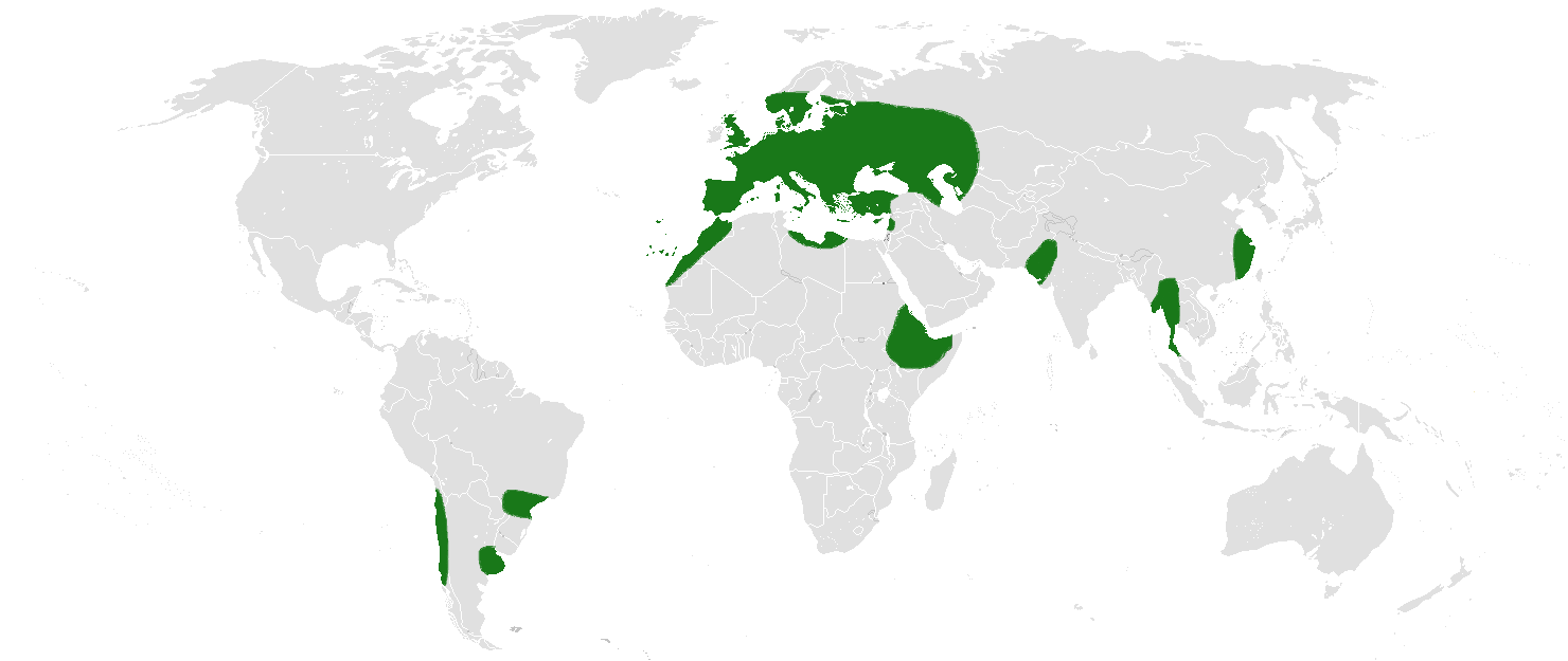 Worldwide Distribution of Uromyces pisi-sativi